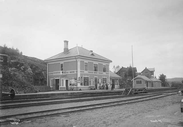 Nestun Station on the Voss Line and the Nesttun–Os Line